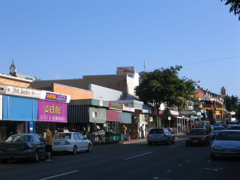 Ethnic food and grocer shops lining up the West End village along Boundary Street